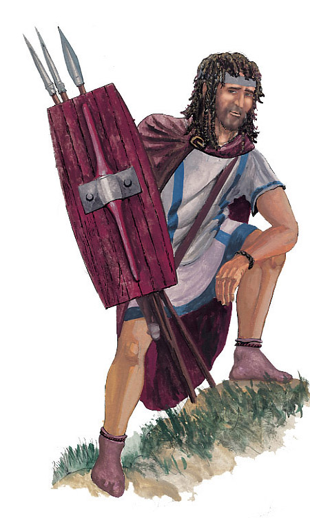 Illyrian footman(1000-200 bc)(The sketch was part of a study for a publication but the project has been cancelled)